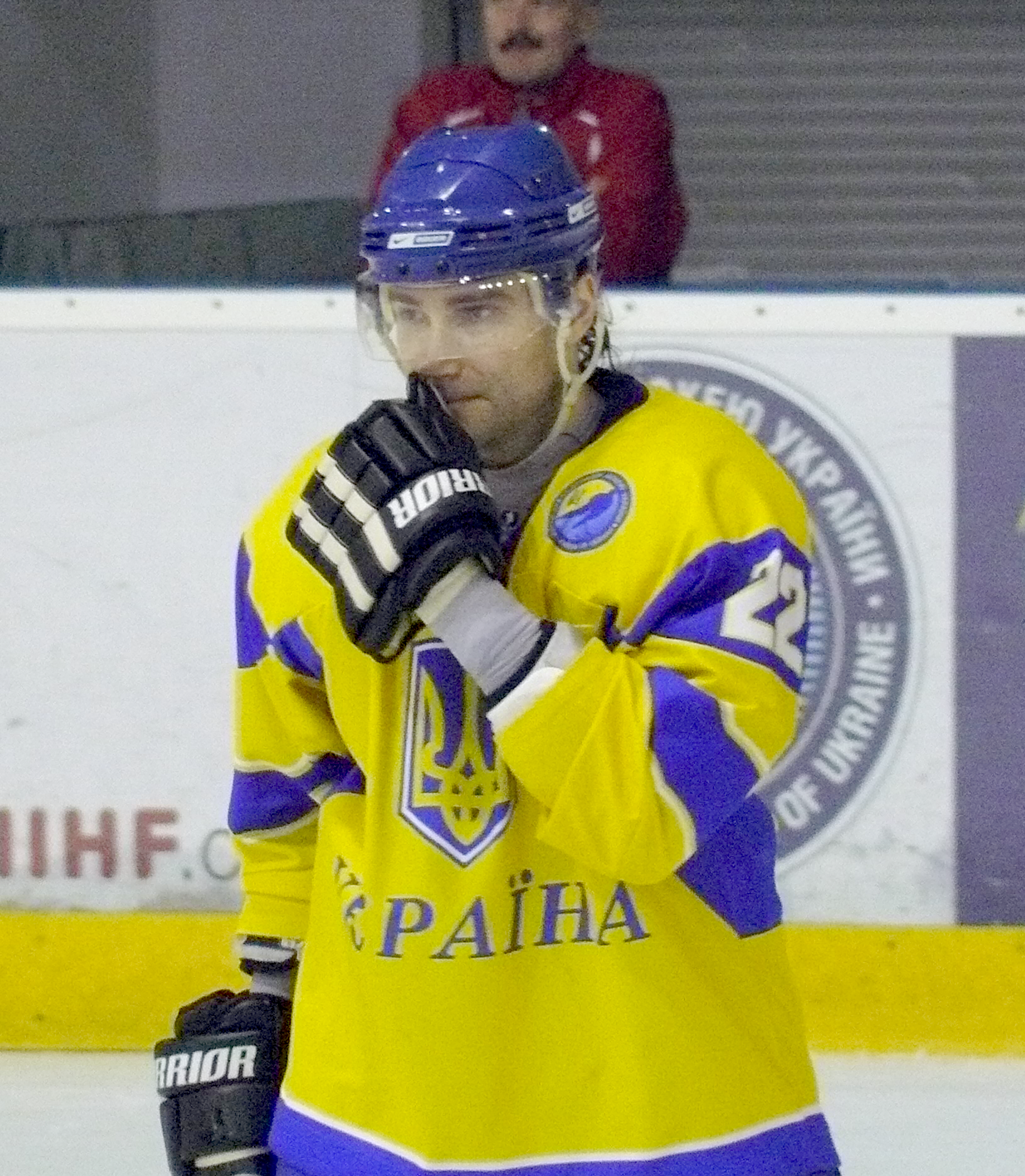 Forward Dmytro Tsyrul #22 of the Ukraine during the friendly game against the Poland on April 10, 2010 at the Terminal Arena in Brovary, Ukraine. Ukraine won the game 2:1.